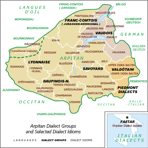 Franco-Provençal language region map showing dialects and groups (revision 1)